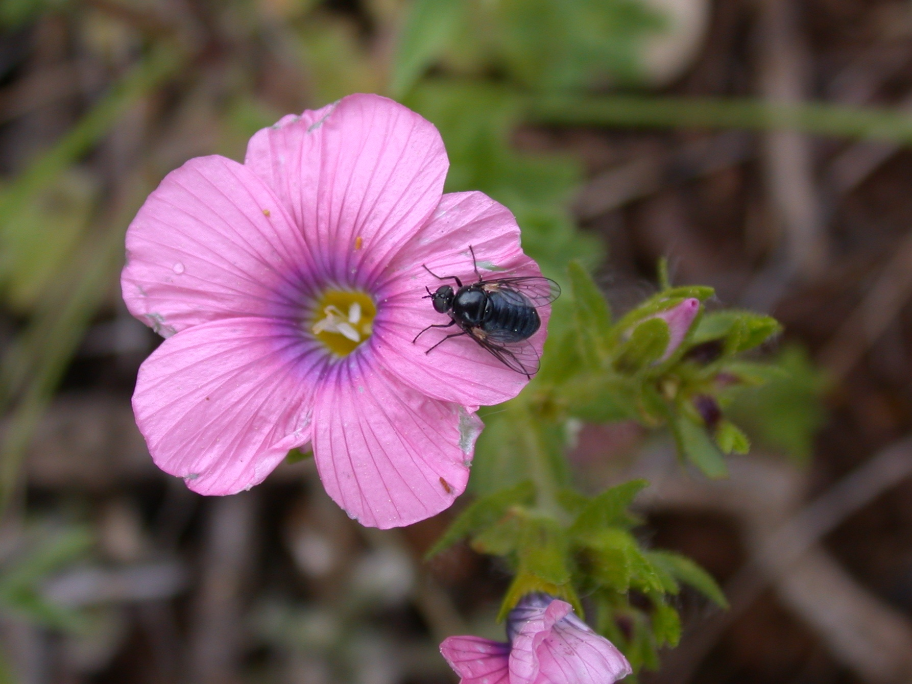 Usia bicolor Macquart (Bombyliidae) on Linum pubescens flower, Judean Mountains, Israel, March 15, 2006.